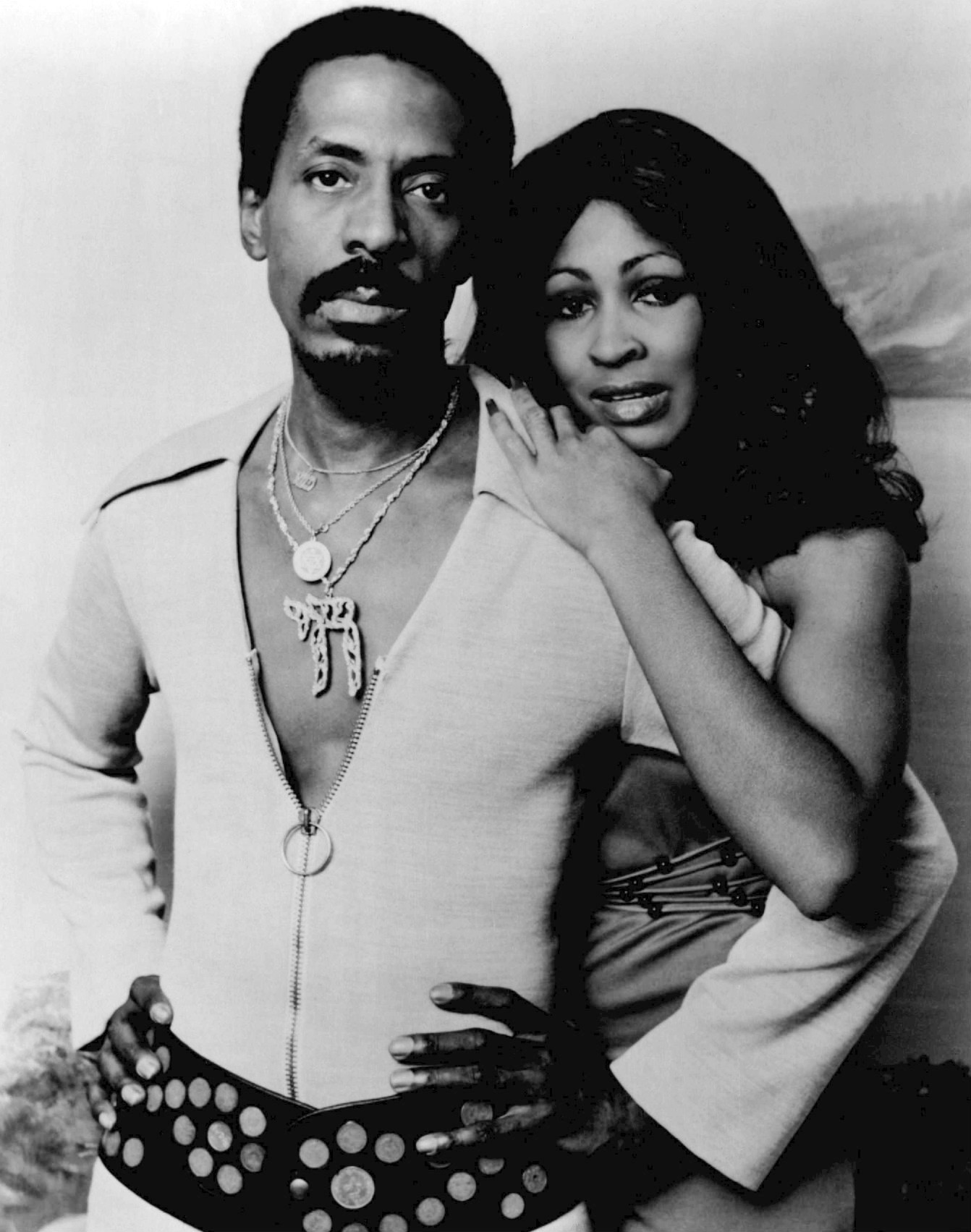 Press photo of Ike and Tina Turner taken in 1973 that was used for their appearance on The Midnight Special in February 1974.